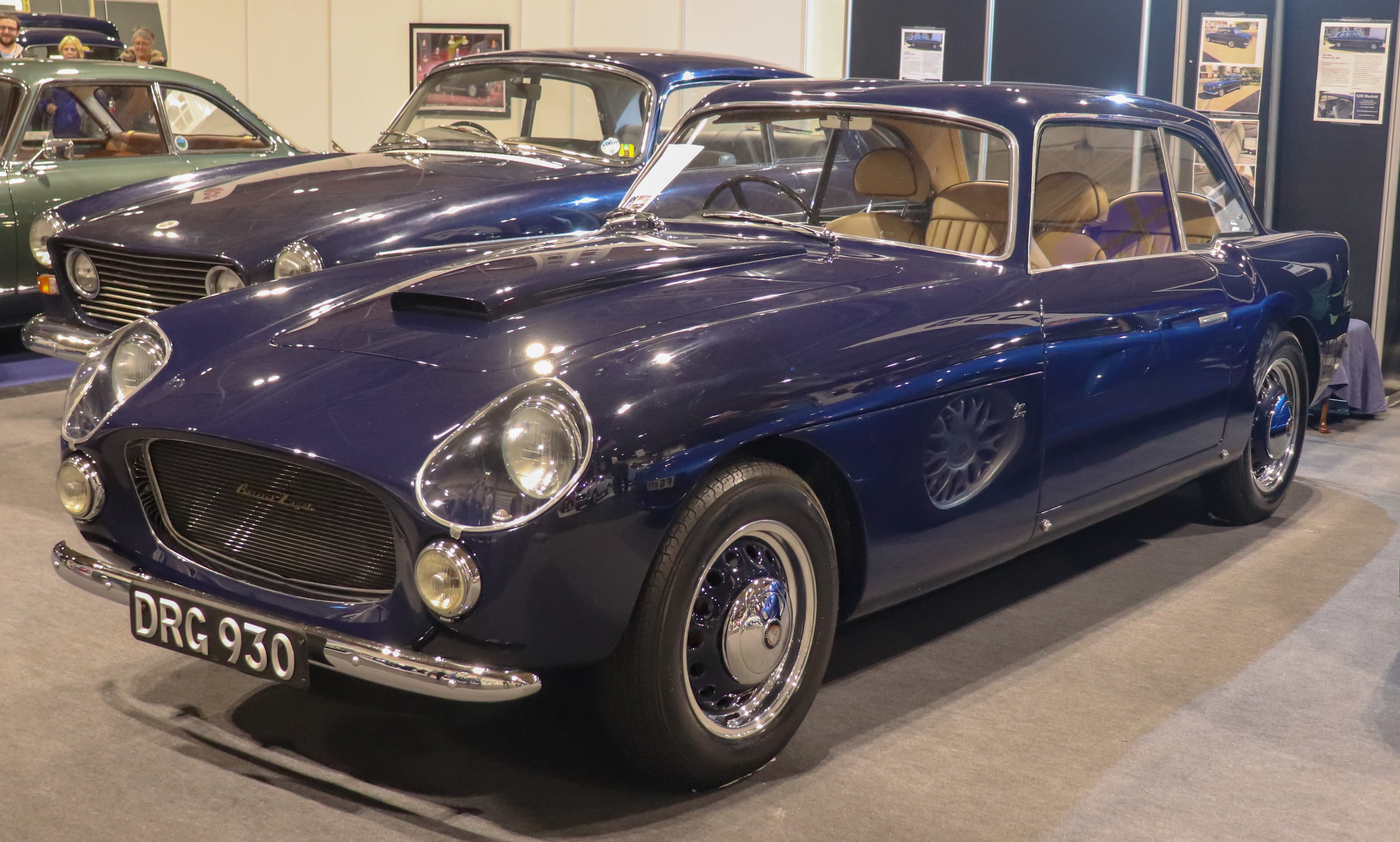 1949 Bristol 400/406 Zagato Taken at the NEC Classic Motor Show 2018. This car has a Bristol 400 Chassis (No. 400-1-568) built in 1949. The chassis was re-bodied in 1960 by Carozzeria Zagato in Milano, Italy, following an order from Bristol Cars dealer Tony Crook. The design is almost identical to the Bristol 406 Zagato from 1959/60, a small series of which was built on new Bristol 406 Chassis. About two or three other Bristol 400 chassis were treated in the same way. This particular car has been used regularly until 1980 in the UK as well as in Libya. In 2013, it was sold as a restauration project at an auction in the UK for 29.000 Pounds. Since then, it has been completely rebuilt. 2018 it was shown at the NEC Classic Motor Show .